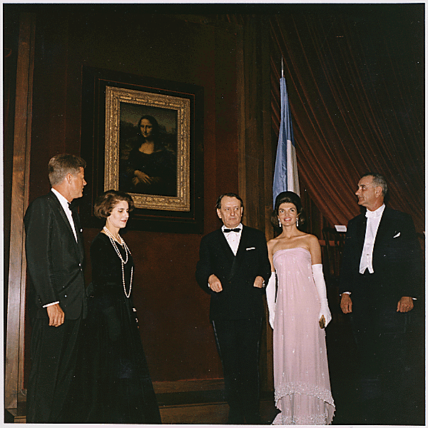 U.S. President John F. Kennedy, Madeleine Malraux, André Malraux, U.S. First Lady Jacqueline Kennedy, and U.S. Vice President Lyndon B. Johnson at an unveiling of the Mona Lisa at the National Gallery of Art, Washington, D.C., January 8, 1963